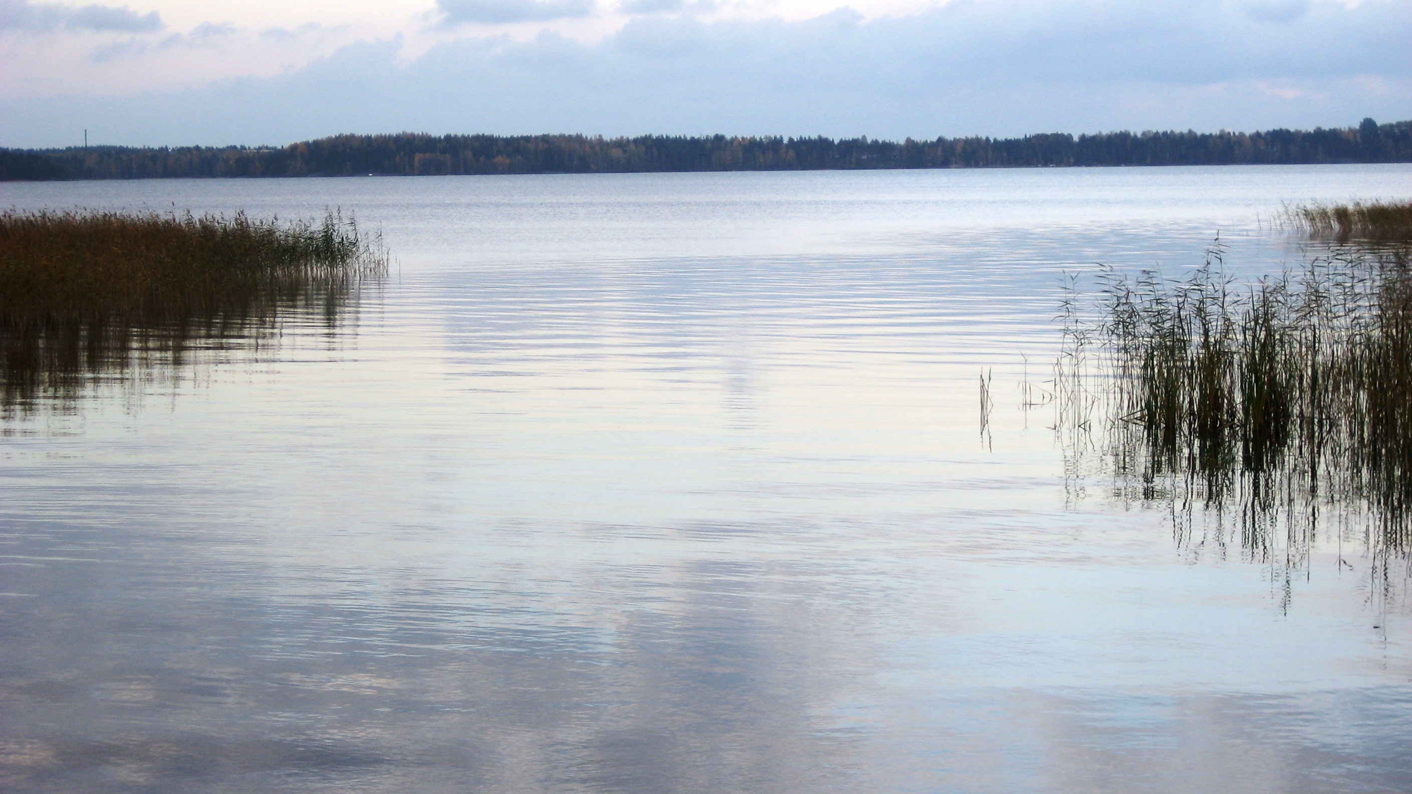 Lake Saimaa morning